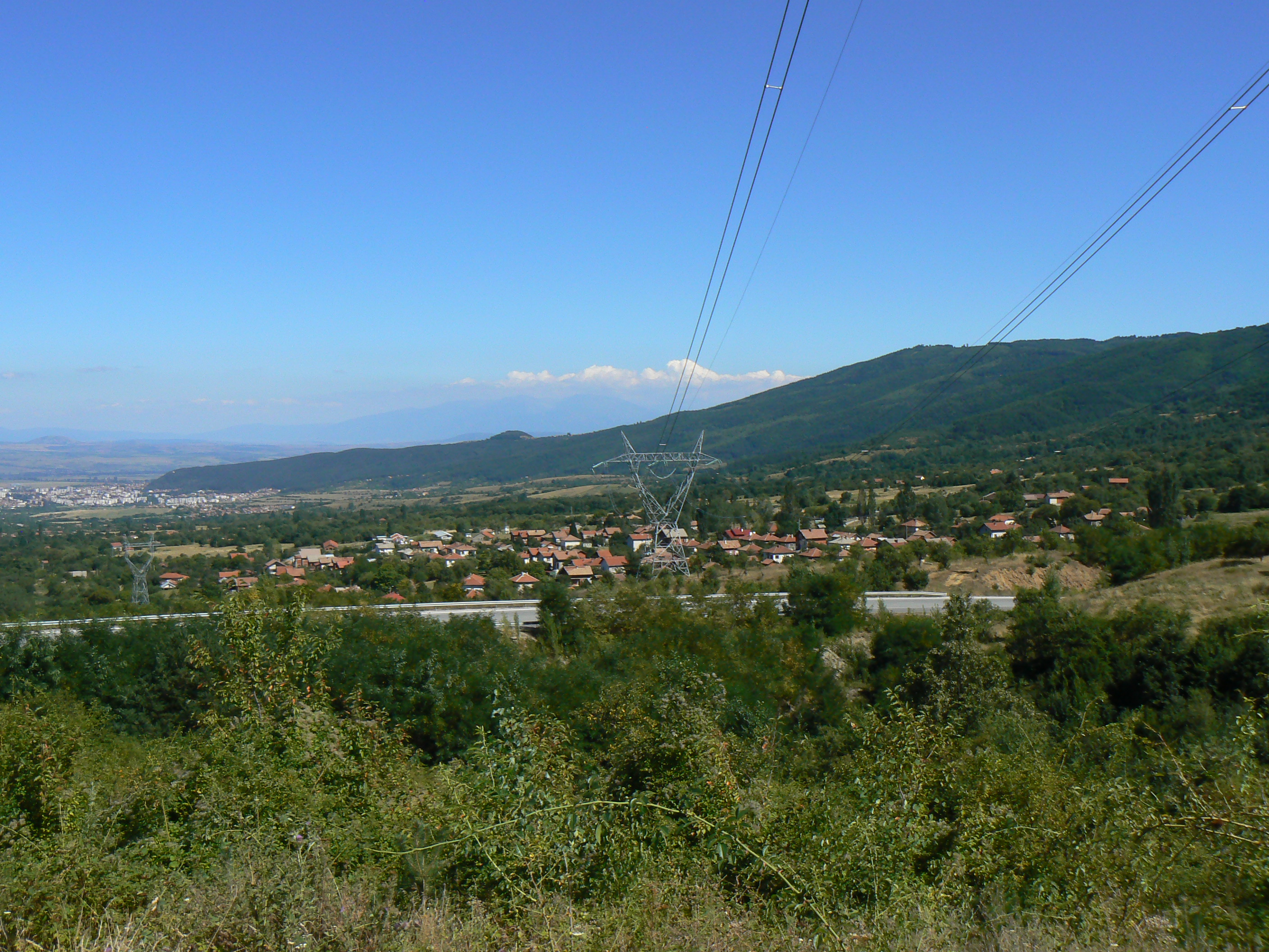 A view from above to village Vrattsa, Bulgaria